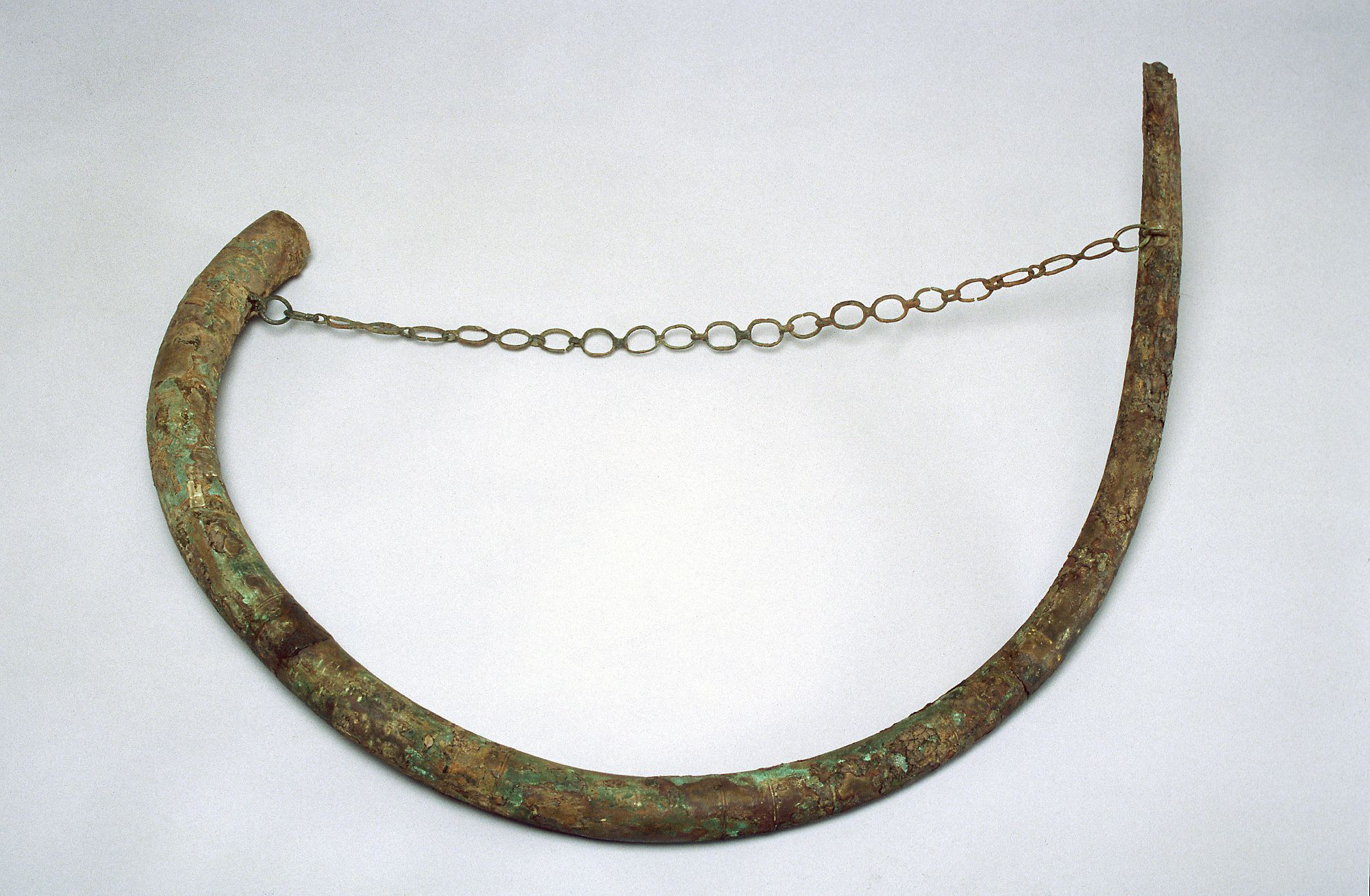 Bronslur hopsatt av tre delar. Munbleck och utåtböjda blecket i den vidare änden saknas. 899 f.Kr. - 700 f.Kr. Påarp, Skåne, Sverige